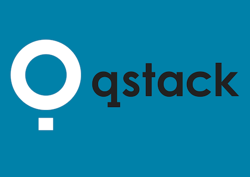 Qstack Logo